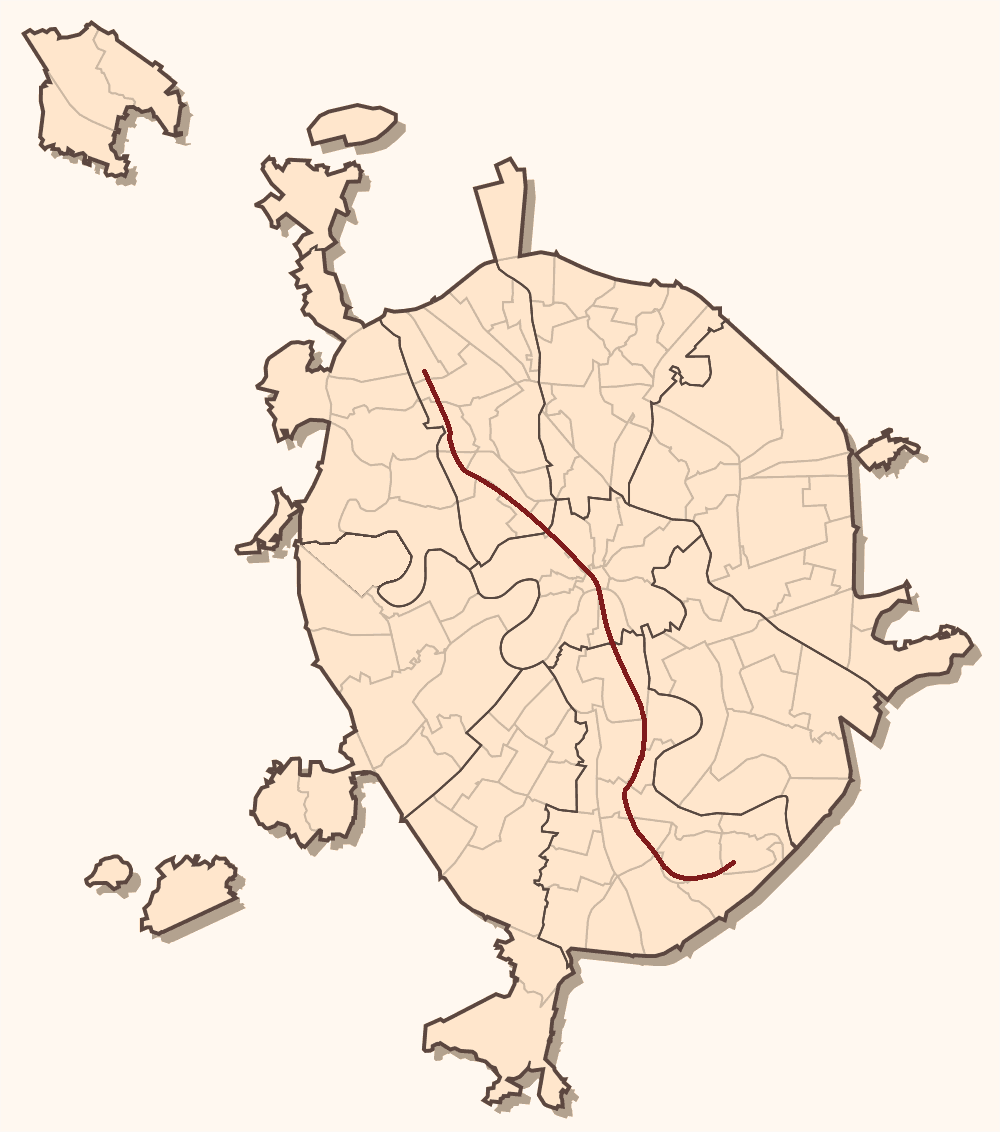 Map of Zamoskvoretskaya line of Moscow Metro on Moscow map